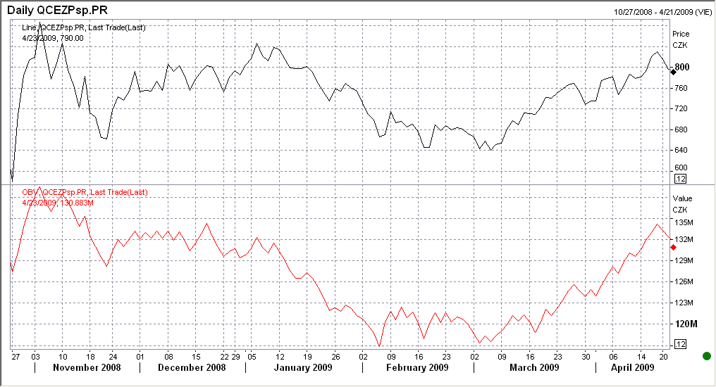 OBV graf